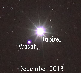 The star Wasat (magnitude 3.5) as seen next to Jupiter (magnitude −2.6) on 10 December 2013. Jupiter is roughly 280 times brighter than Wasat. Image taken with a Canon T3i mounted on a standard camera tripod using a 50mm f1.8 lens. (Exposure: f2.2, 5sec, 1600 ASA)